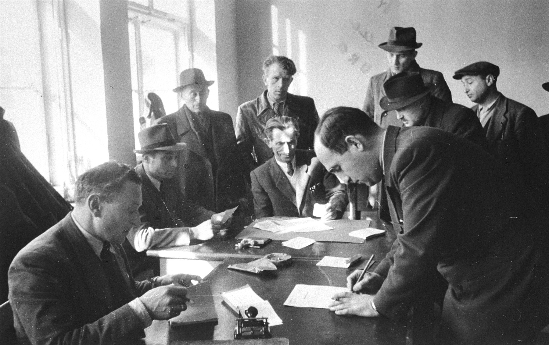 see title